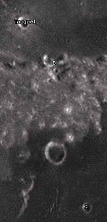 Tacquet lunar crater as seen from Earth with satellite craters labeled